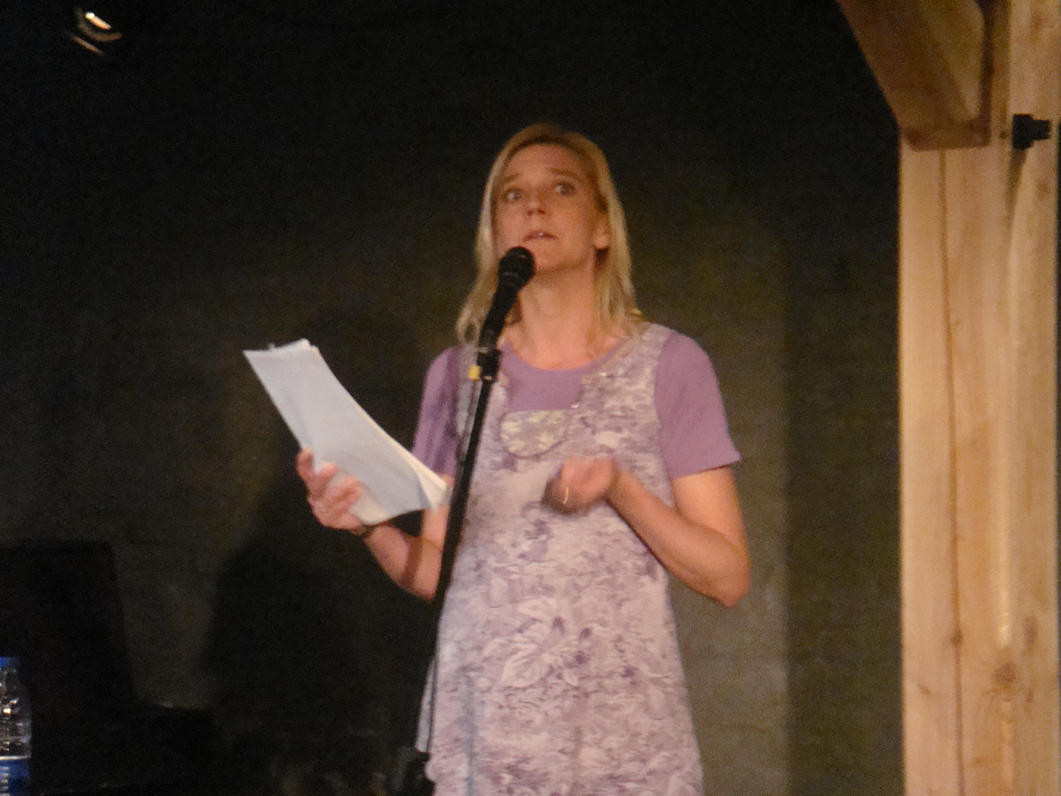 Danish poet Iben Claces